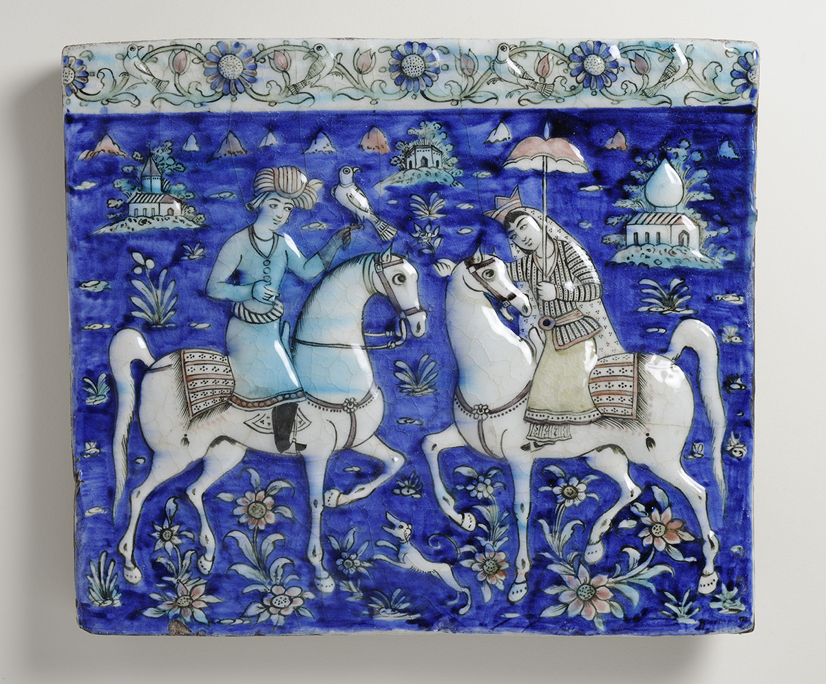 Riders.